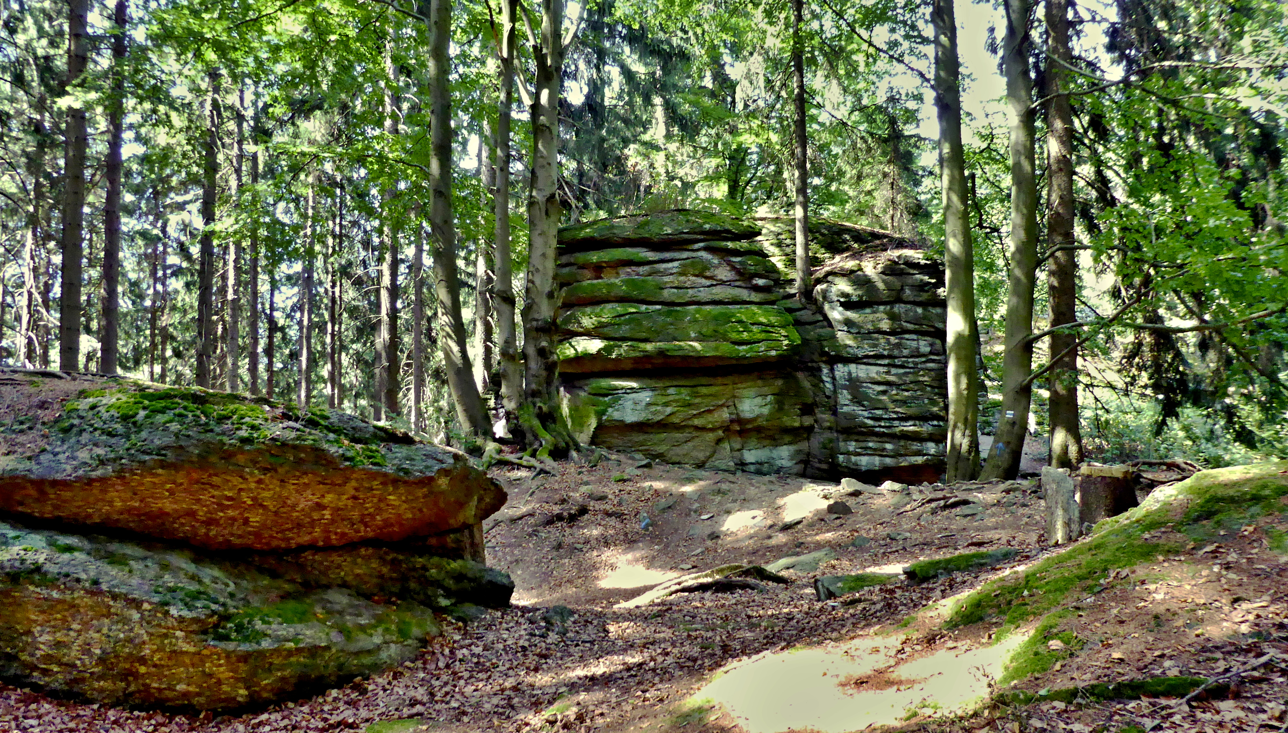 Natural Monument Petrified Chateau on the edge of a short and blind ridge, the top part of the terrain at an altitude of 752 m according to the contour line in the map of the Czech Republic. Pictured on the left are the rock outcrops above the group of rocks, in the background the rock block called the Cabinet, the distinctive separation of the rocks plate-like.Photo-location: Czechia, Vysočina Region, the town of Svratka, a group of rocks called Petrified Chateau (azimuth 230°).